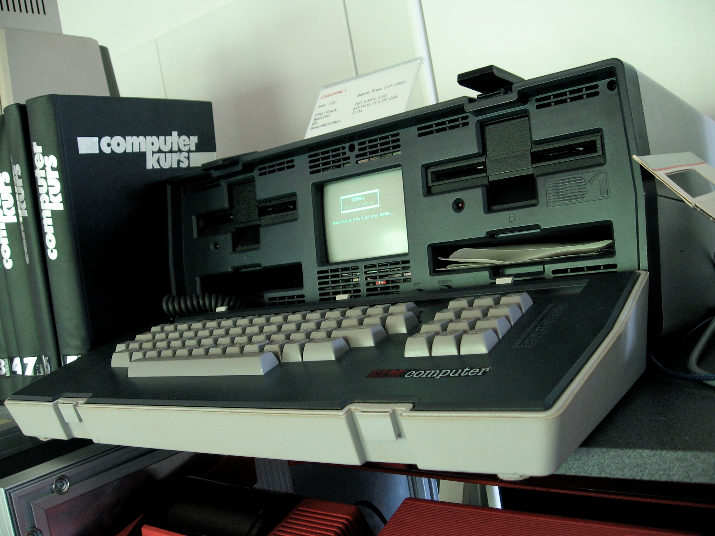 Osborne-1 portable computer